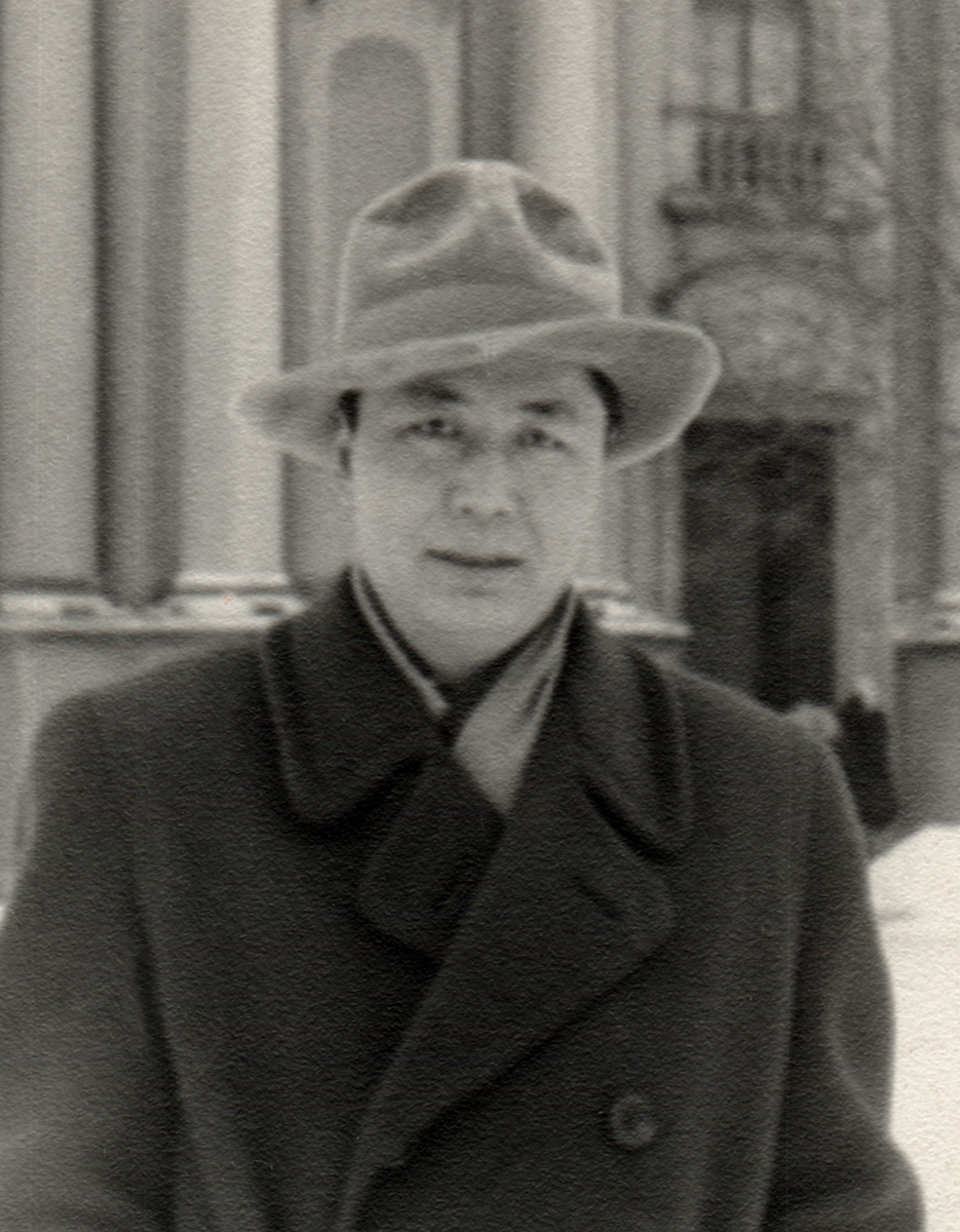 Mongolian Architect B. Dambiinyam in Moscow during studies at the Moscow State Technical University and the Moscow Architectural Institute (State Academy), 1946-1956 Монгол: Монголын Архитектор Бандийн Дамбийням, Москва, Россуя